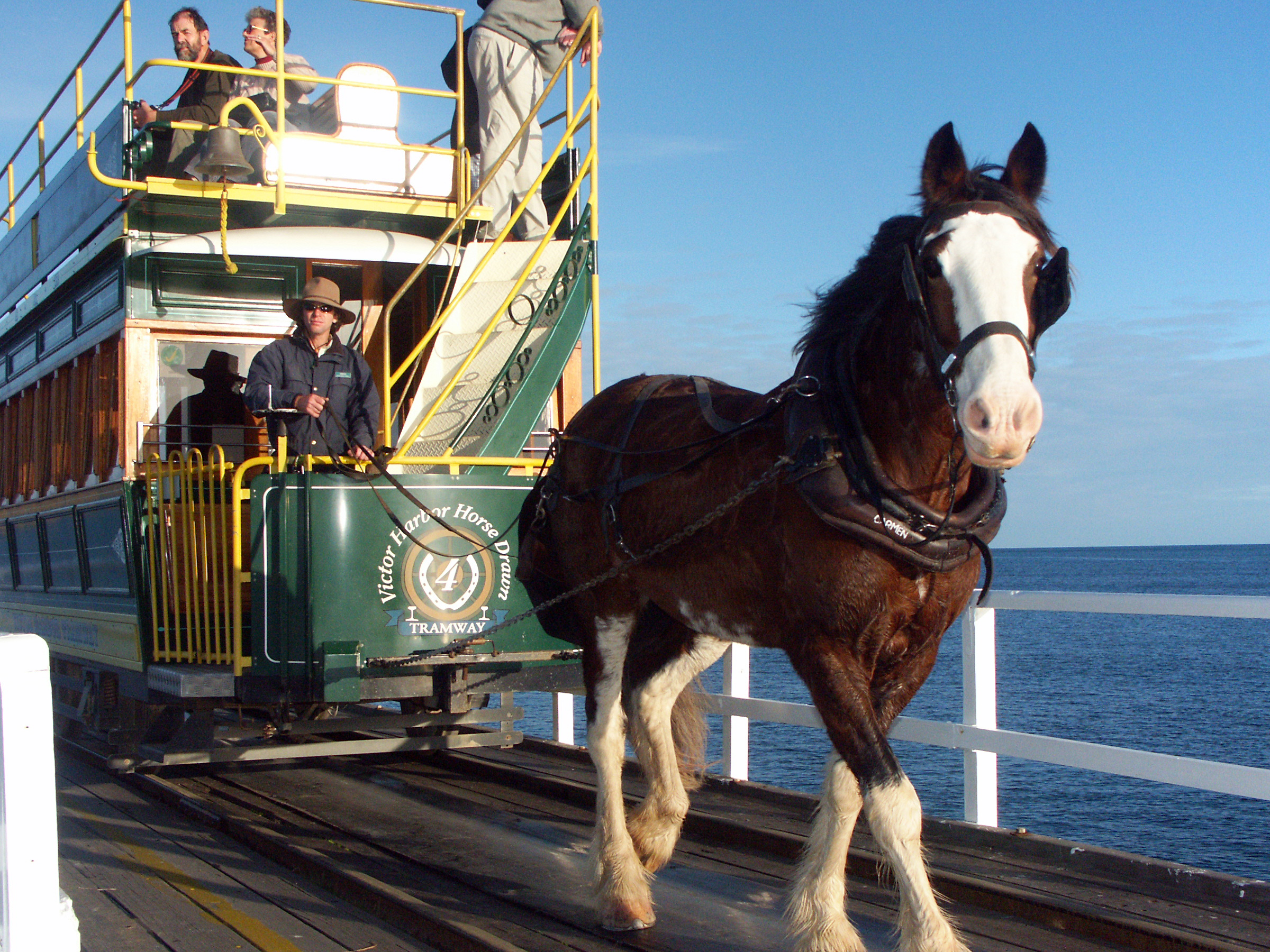 Horse drawn tram on causeway at Victor Harbor, South Australia. For more information, see the Wikipedia article Victor Harbor Horse Drawn Tram.